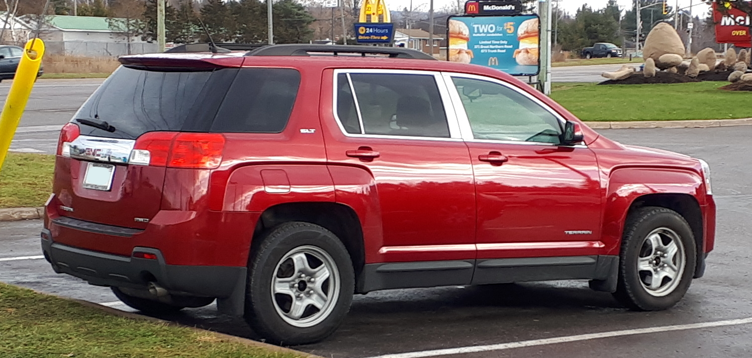 2010-2017 GMC Terrain SLT photographed in Sault Ste. Marie, Ontario, Canada